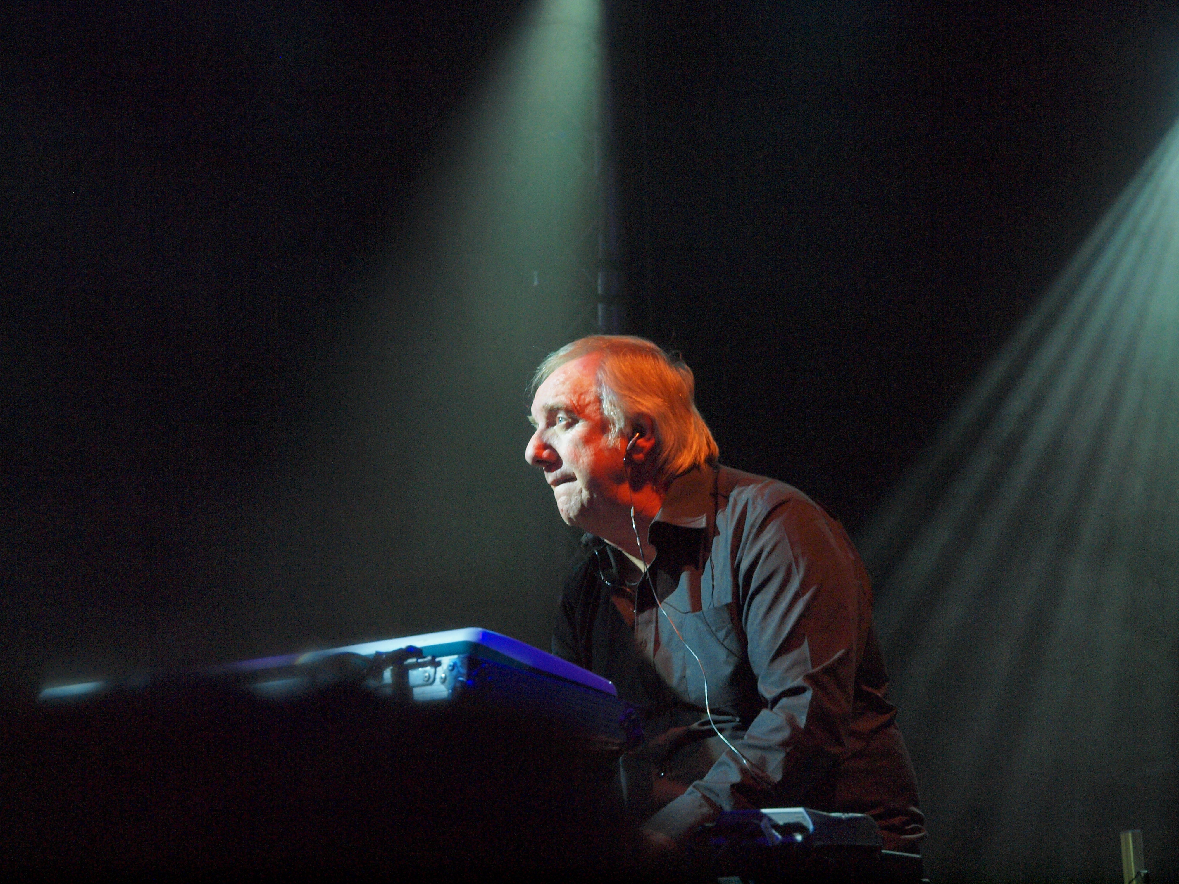 Jan Schelhaas from Caravan, Zoetermeer, 27 october 2012